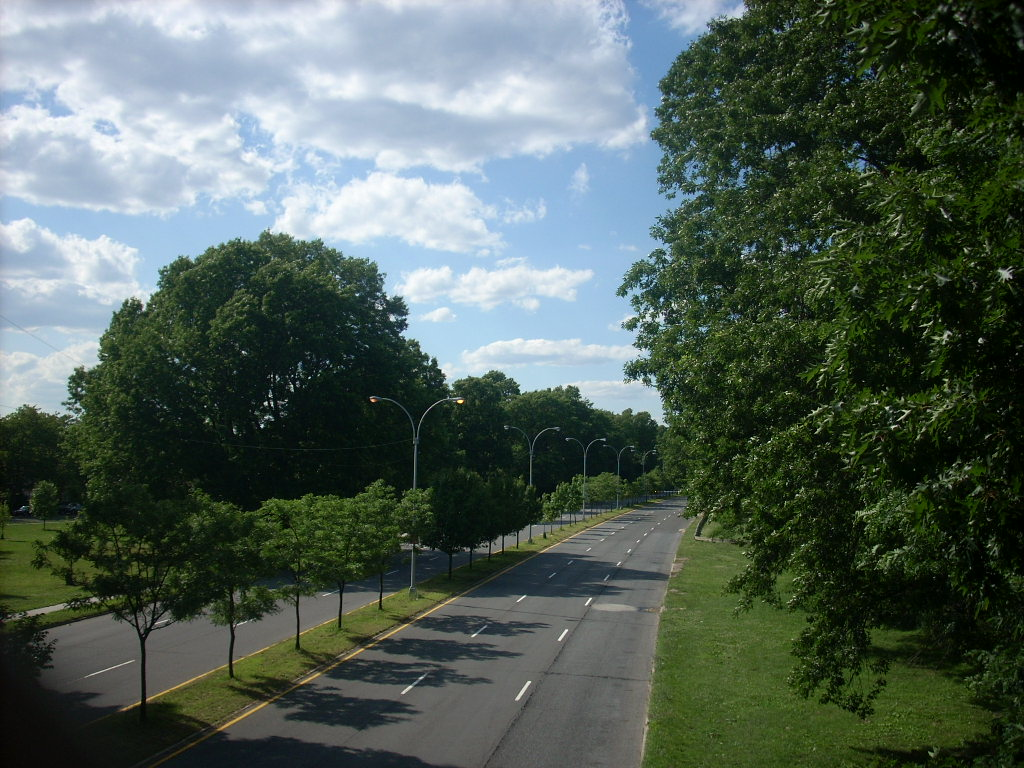 Francis Lewis Boulevard, in Cunningham Park. Photo taken from the Long Island Motor Parkway.